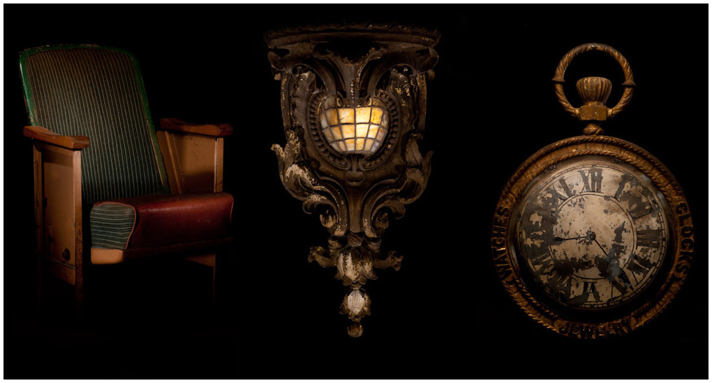 Original chair and sconce light fixture found in the Vox Theatre during renovation in 2009. Period jewelers store sign found in the Vox Theatre, original location unknown.